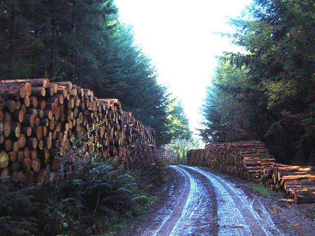 Softwood log piles in Chepstow Park Wood